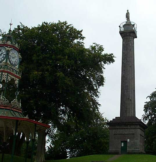 Cole's Monument viewed from Fort Hill park